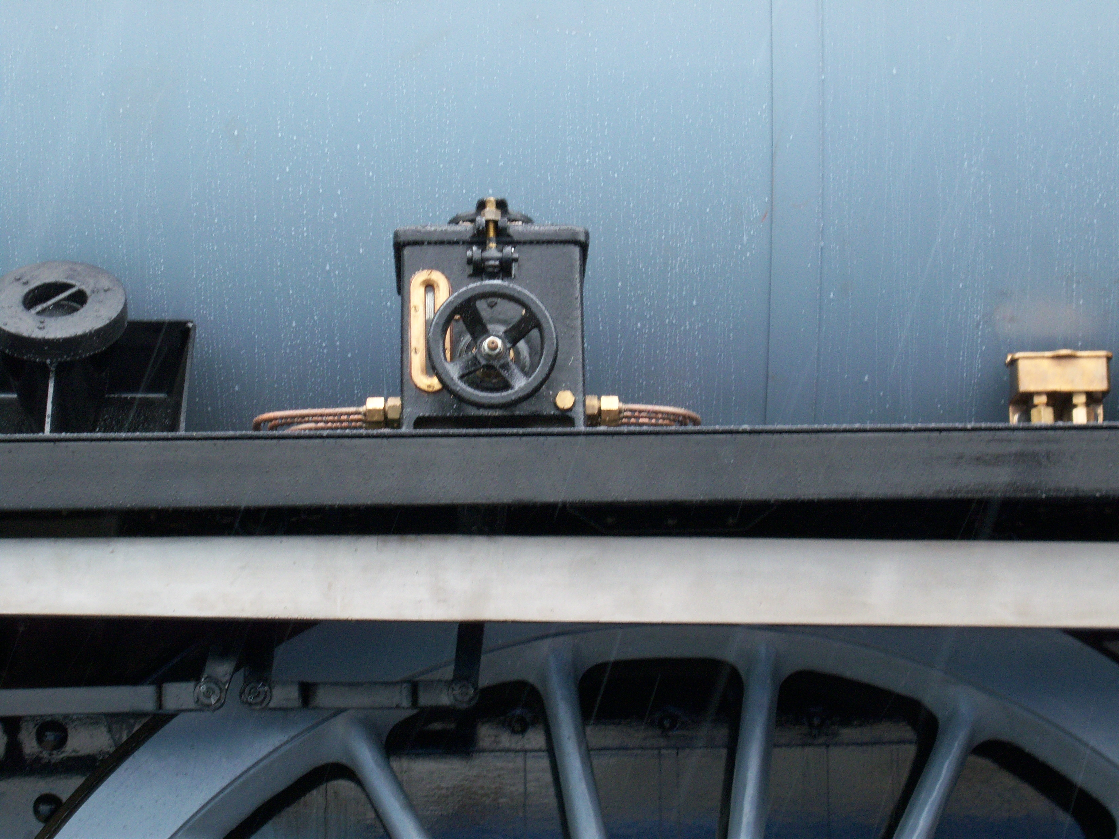 60163 Tornado pipework and mechanical lubricator